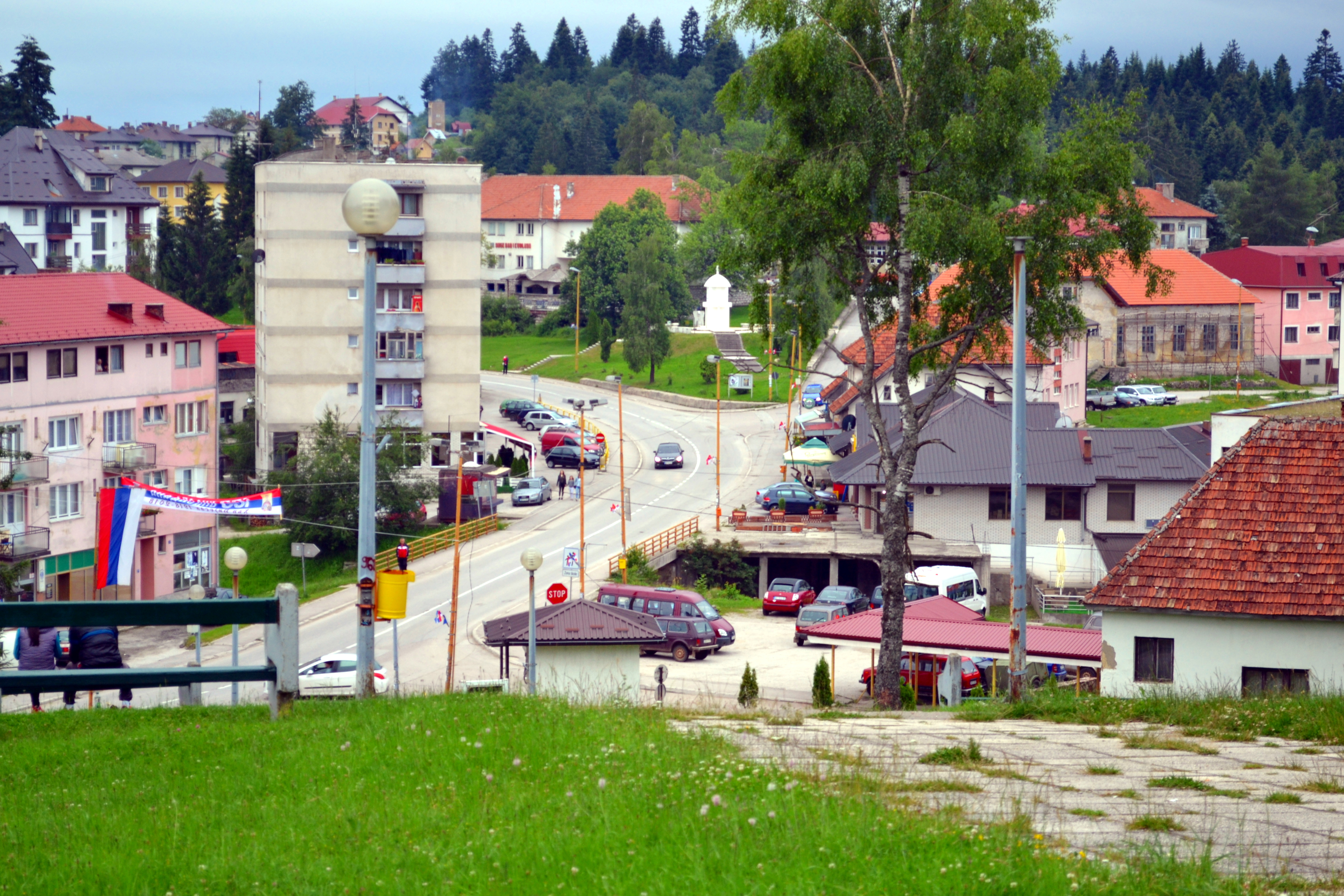 Han Pijesak is smal town in Bosnia and Hetrzegovina